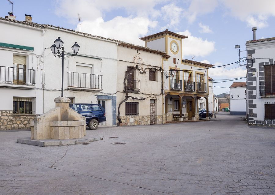 Ayuntamiento